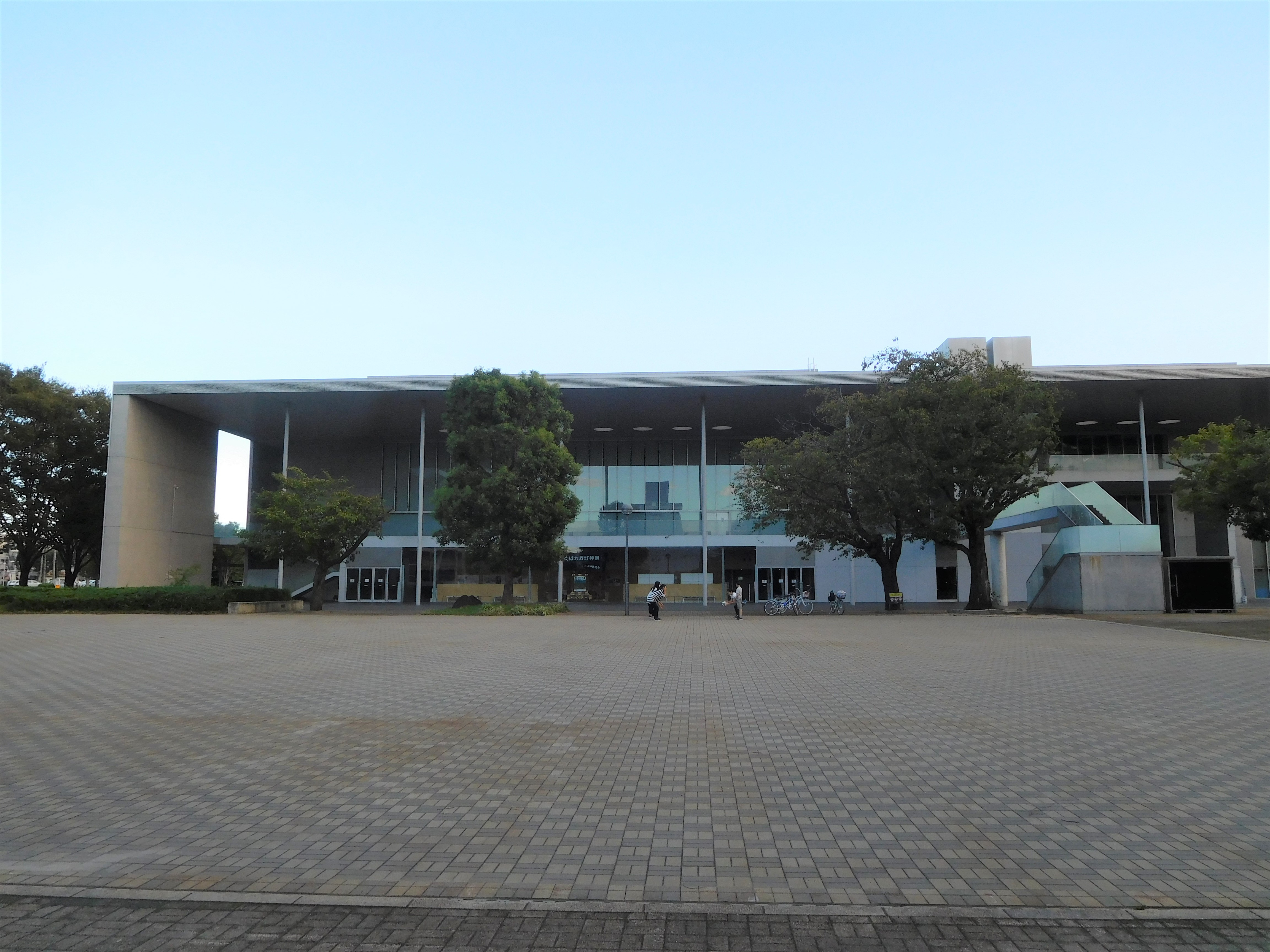 This is Tsukuba Capio in Tsukuba, Ibaraki, Japan.